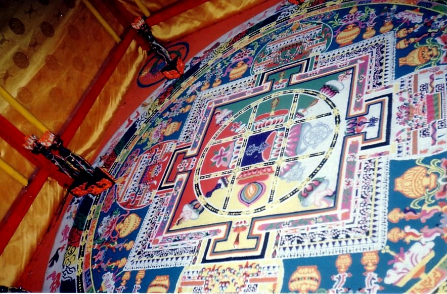 Description at : "I took this photo myself in September 1993 and am happy for it to be freely available. John Hill 02:45, 28 January 2007 (UTC) I am sorry - in the original name I gave the date as 1994 by mistake - it was taken during our trip to Tibet in 1993. John Hill (talk) 00:48, 9 January 2008 (UTC)